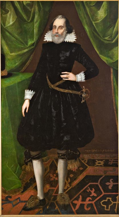 Francis Clifford, 4th Earl of Cumberland (1559-1641)